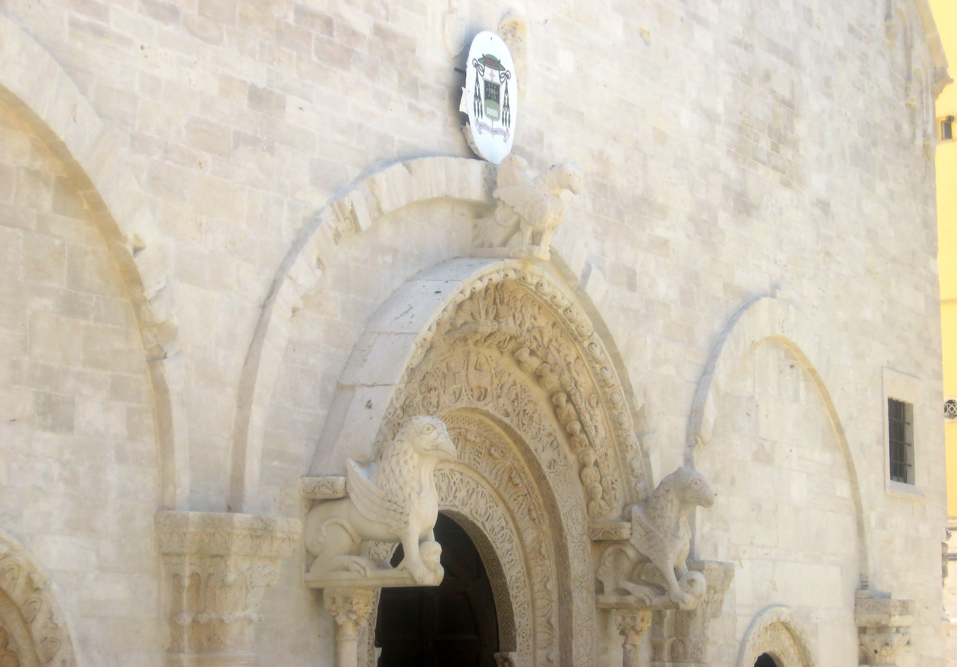 Portale centrale